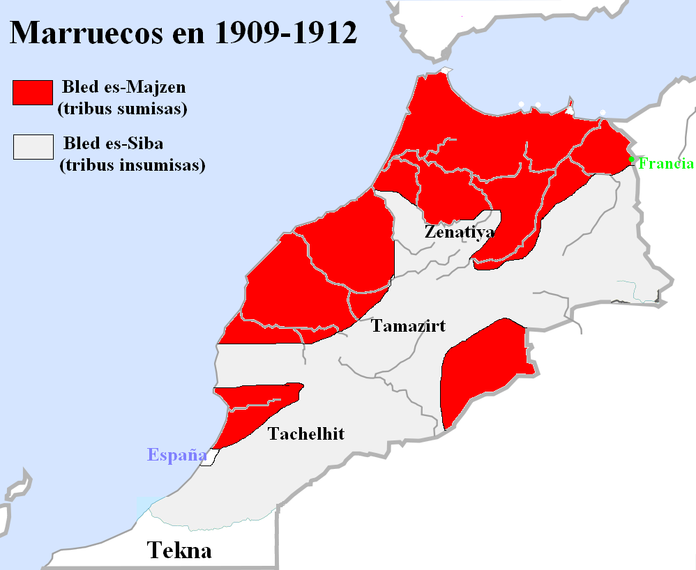 Blank administrative map of Morocco, for geo-location purposes.